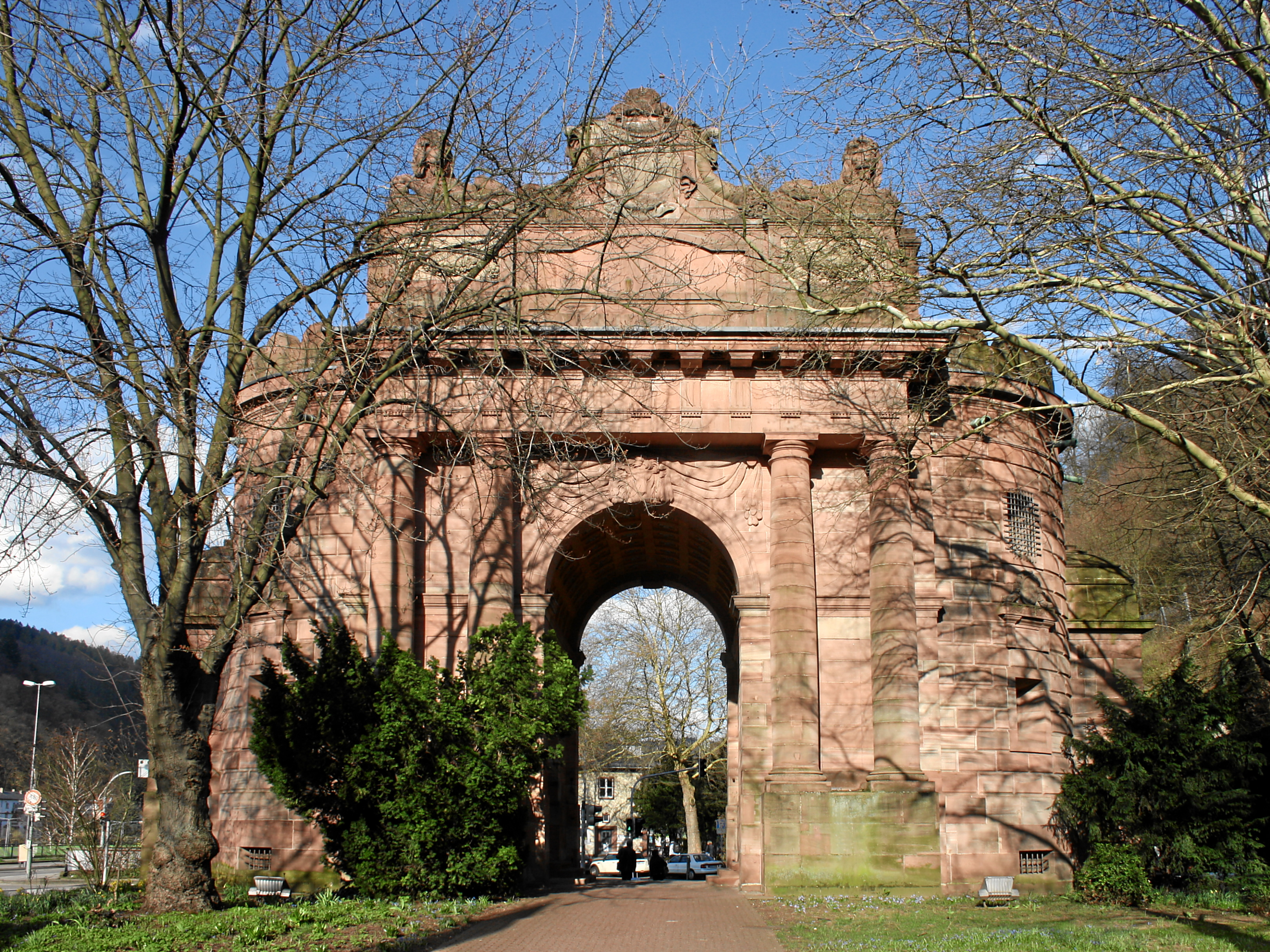 Heidelberg, Germany. Karlstor city gate from West.